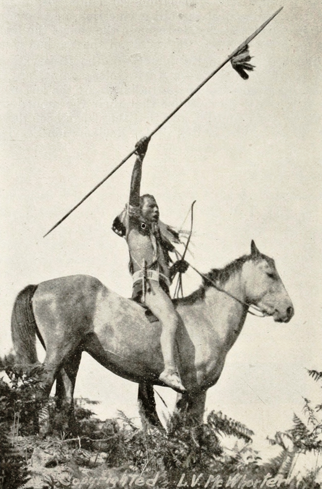 This photograph is on page 50 of a scanned work (The crime against the Yakimas) and in the Public Domain as it was published in the United States in 1913. The source work is currently stored at the Internet Archive